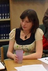 Photograph of Jenn Ashworth at a creative writing workshop she ran